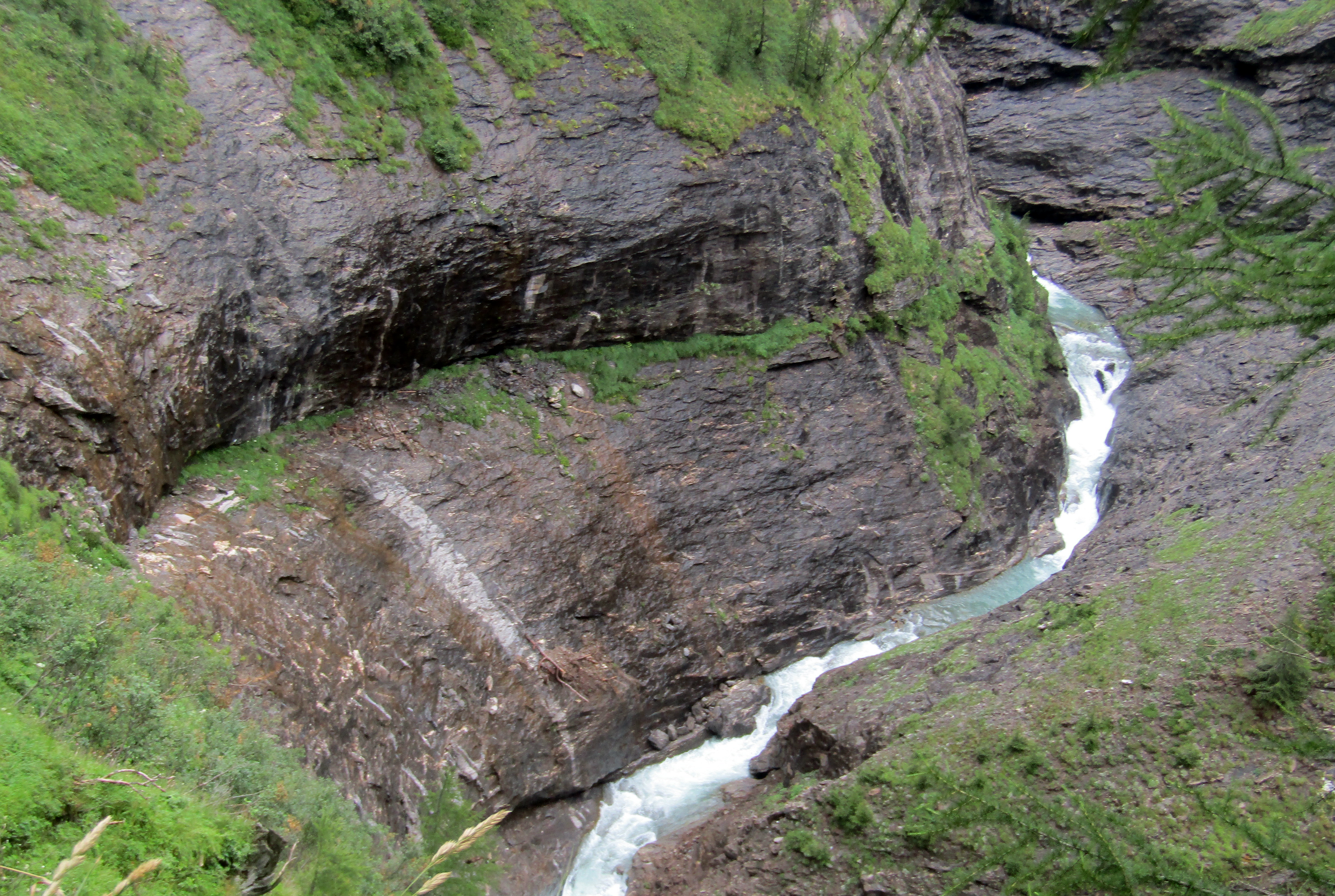 Cairasca stream in the Forra del Groppallo (Canyon of Groppallo); Lepontine Alps, Italy